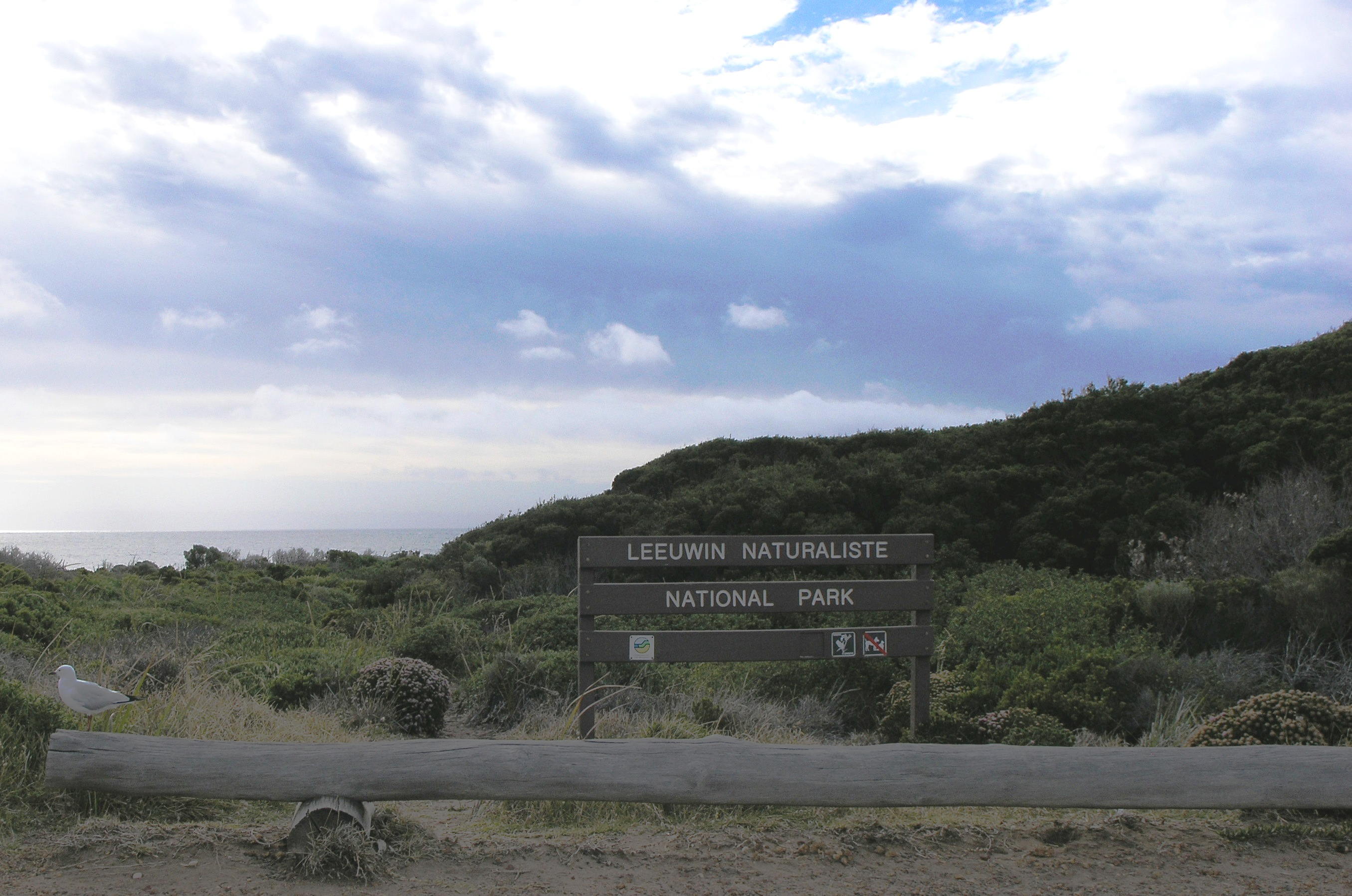 Leeuwin-Naturaliste National Park Western Australia. Taken near Leeuwin lighthouse by myself